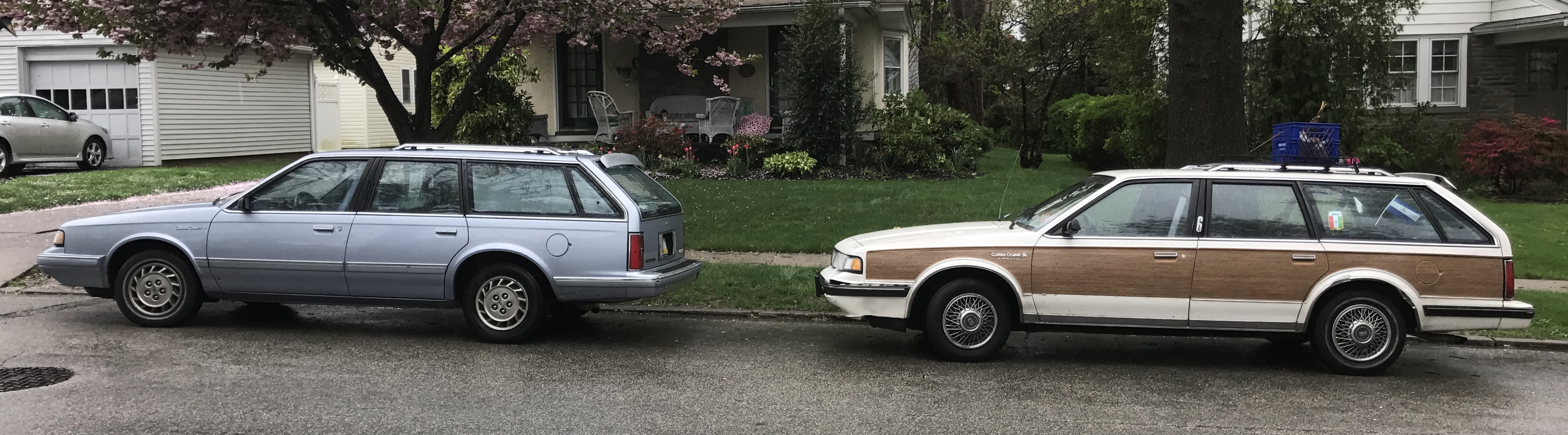 Two Oldsmobile Cutlass Cruisers, photographed in Havertown, Pennsylvania, USA